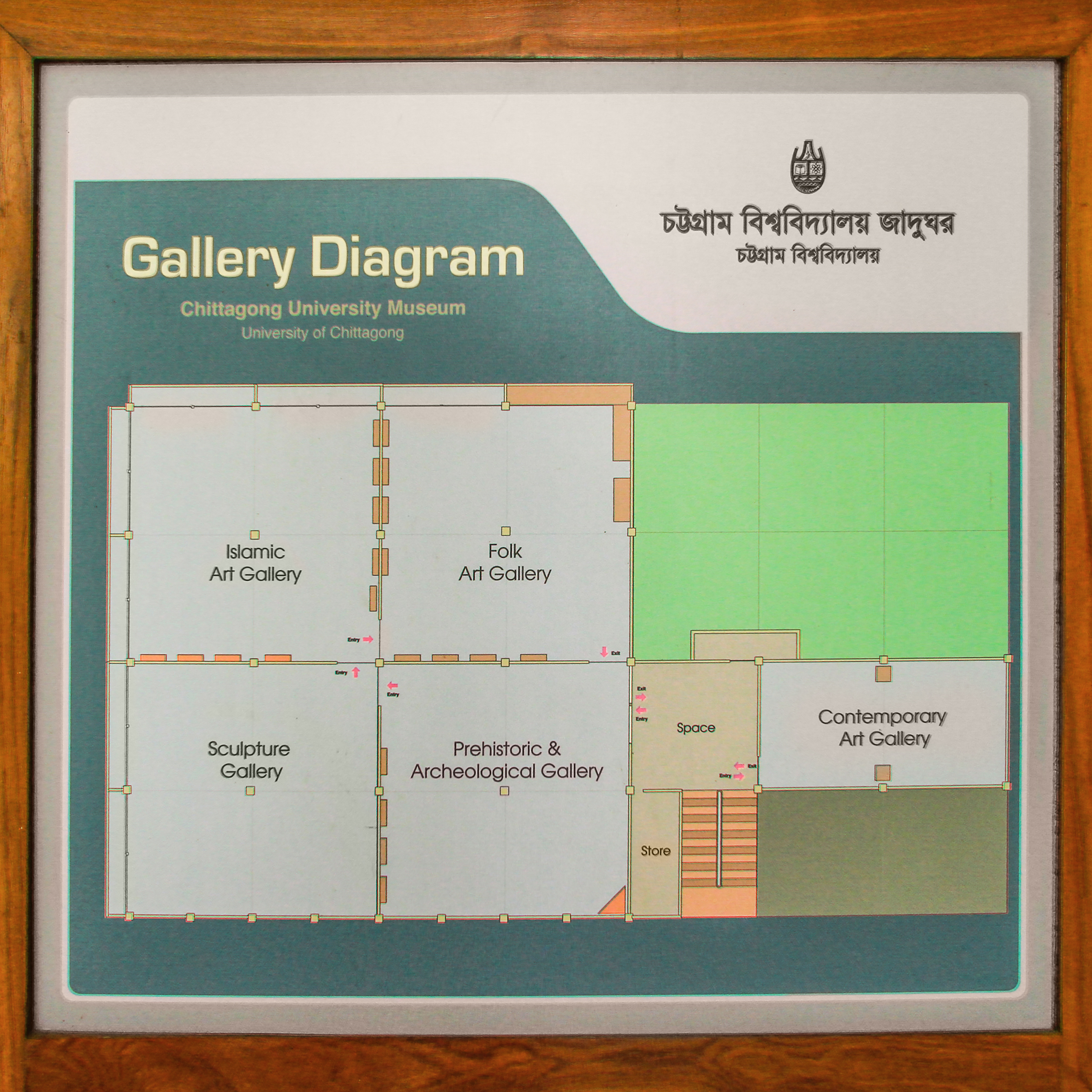 Gallery Diagram of Chittagong University Museum